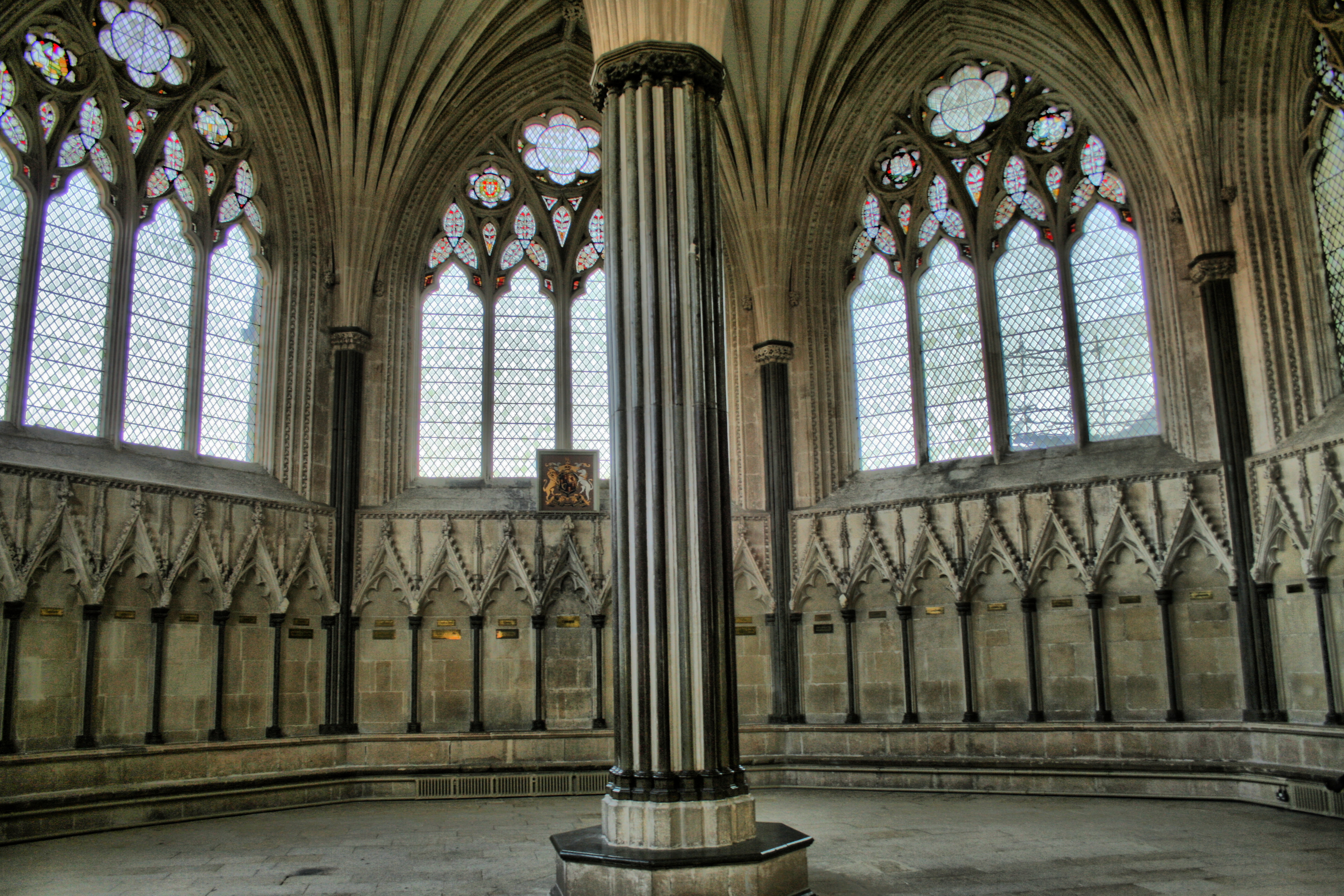 Taken on the 11th Feb 2008 at Wells Cathedral, Somerset.